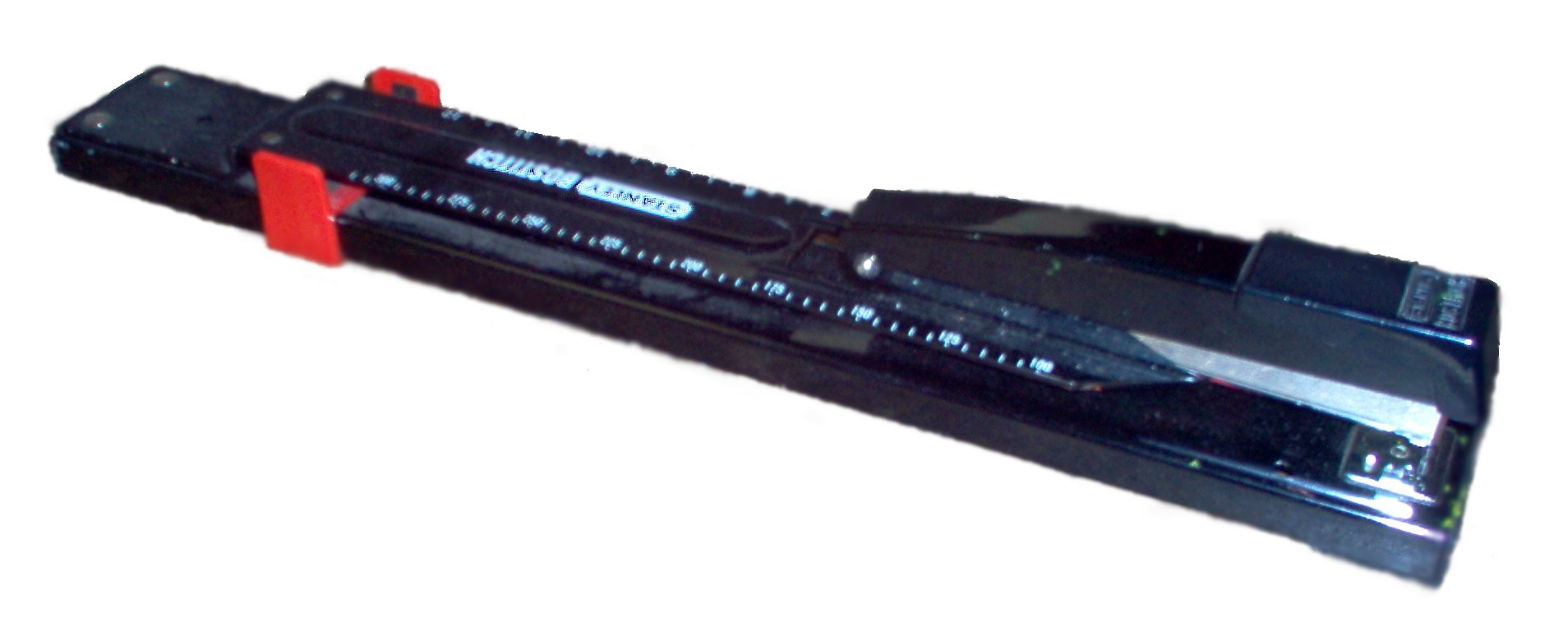 A saddle stapler, picture taken by SpellCheck Edited with TheGIMP